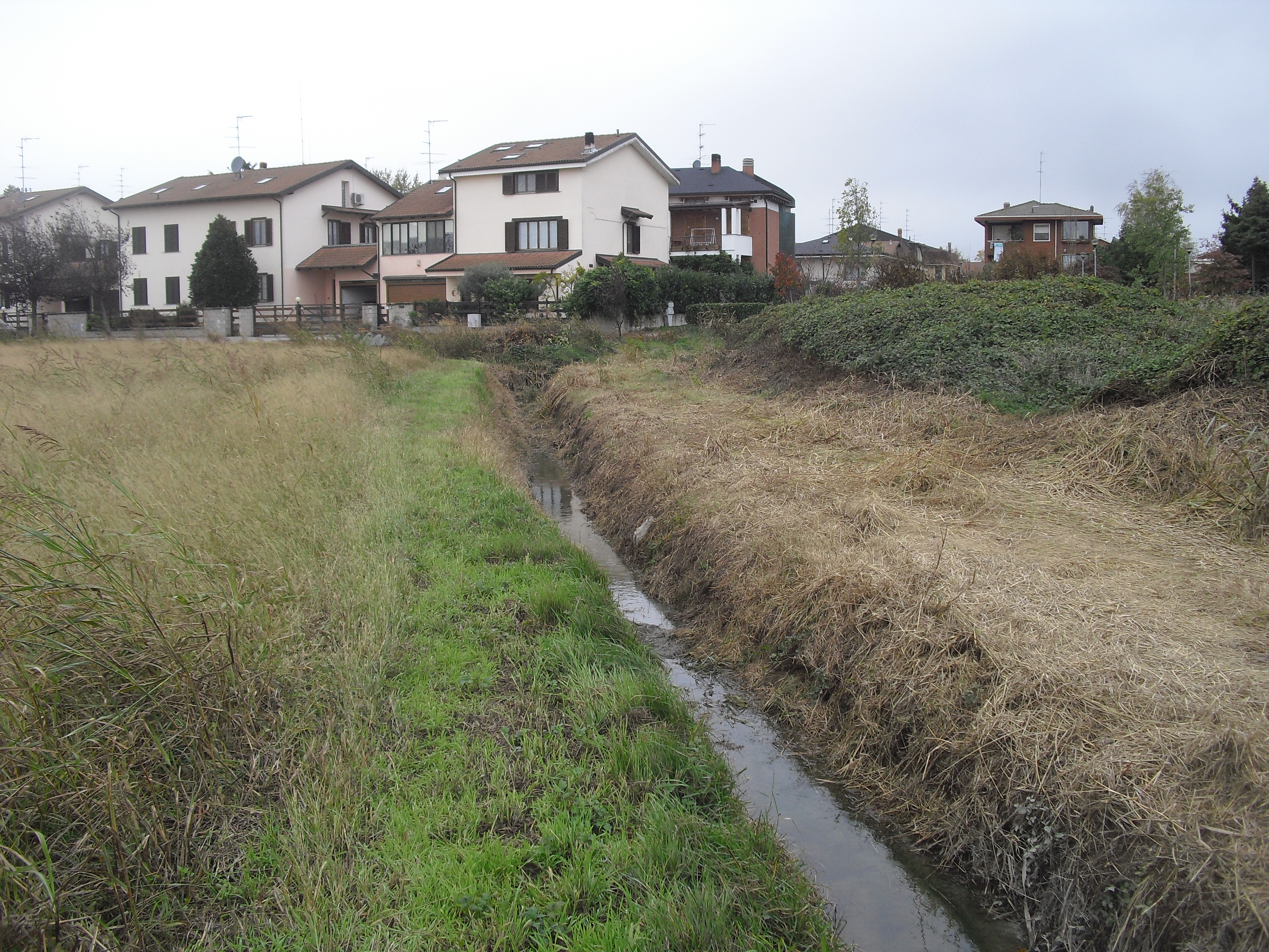 Torrione Creek near Novara